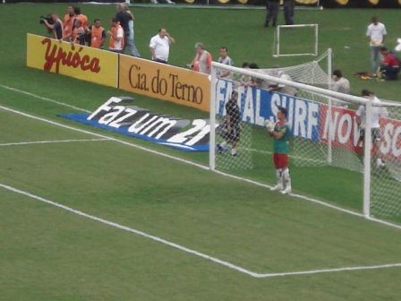 Fernando Prass in São Januário Stadium.